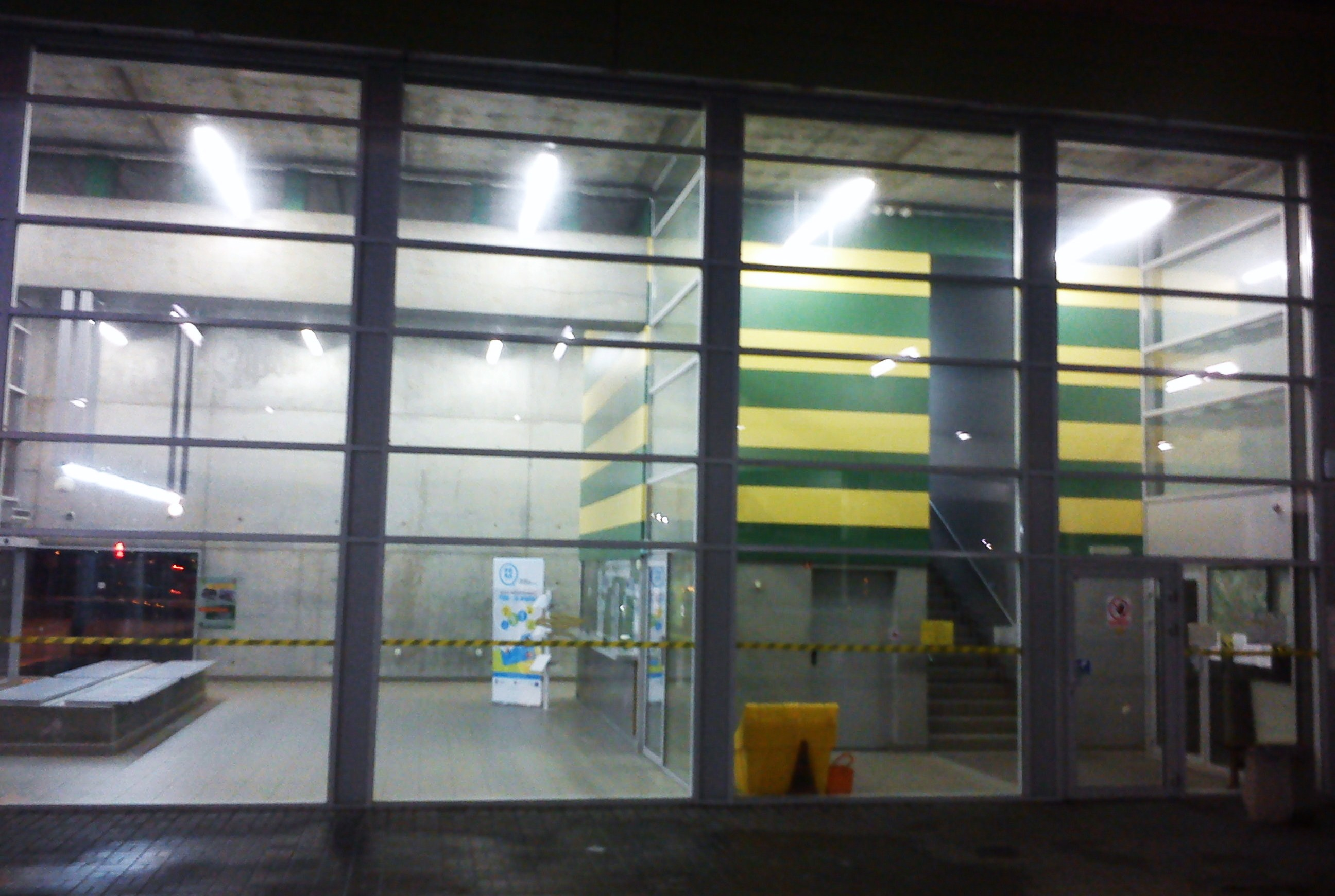 Bus station Jana III Sobieskiego in Poznań, Poland.